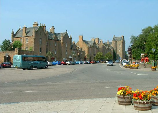 Dornoch, main street. Looking toward the Jail, which is now a "Scottish" shop.